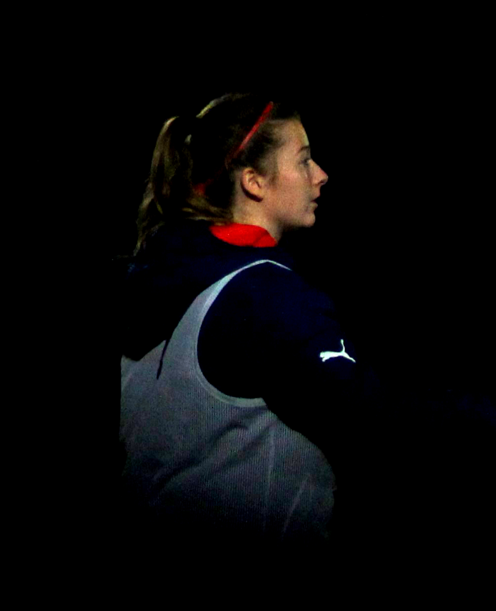 Christie Murray during the Continental Cup Final against Manchester City Ladies